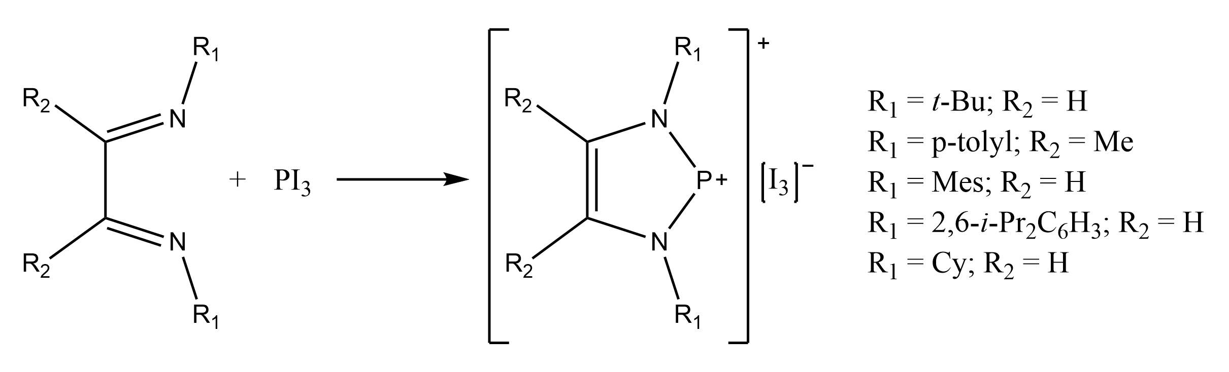 Redox synthesis of N-heterocyclic phosphenium. Adapted from